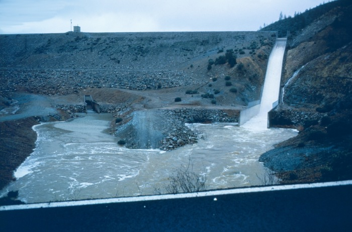 Spring Creek Dam in flood